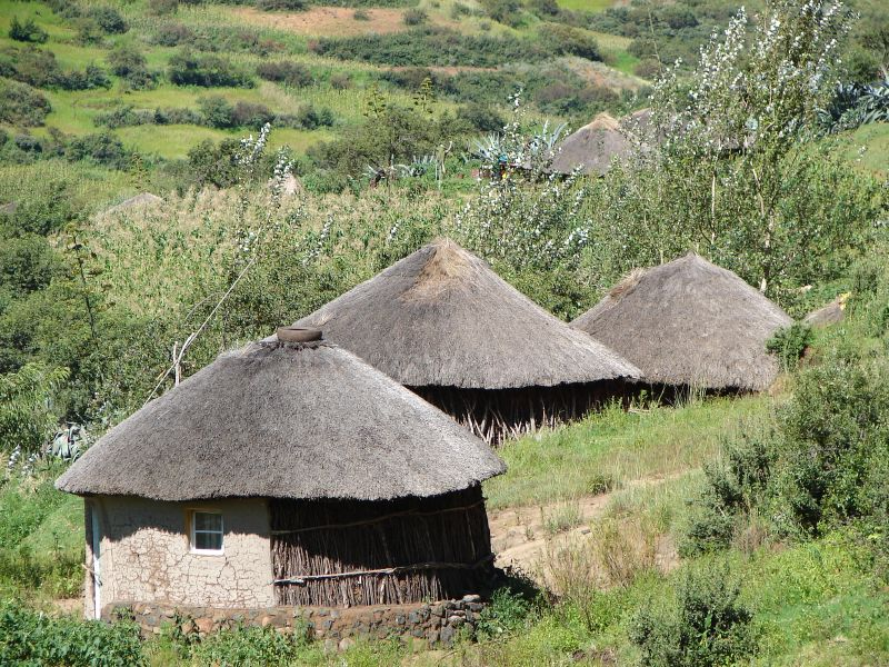 Thatch hut village 20km south of Hlotse, Lesotho